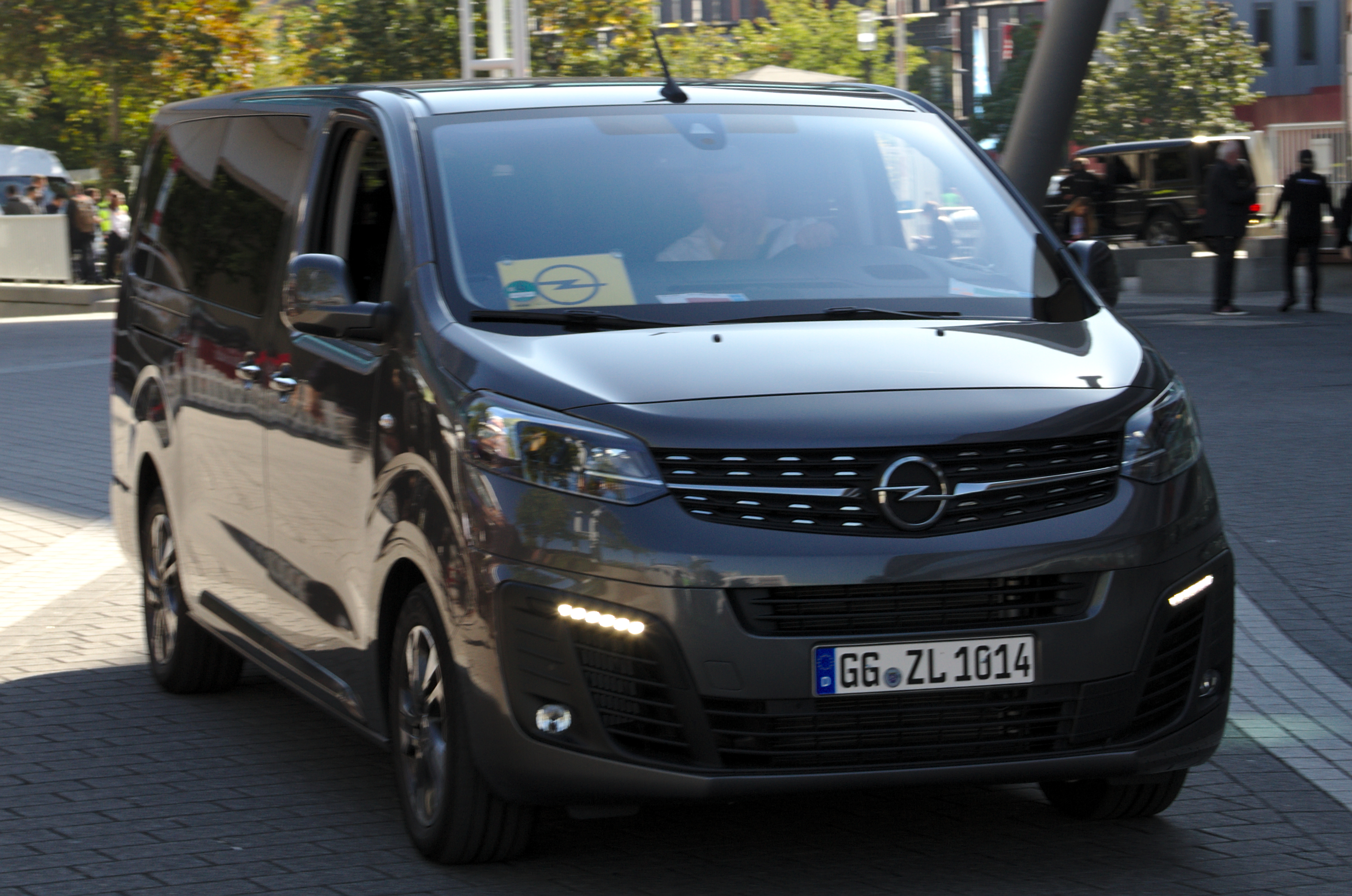 Opel_Zafira_Life at IAA 2019